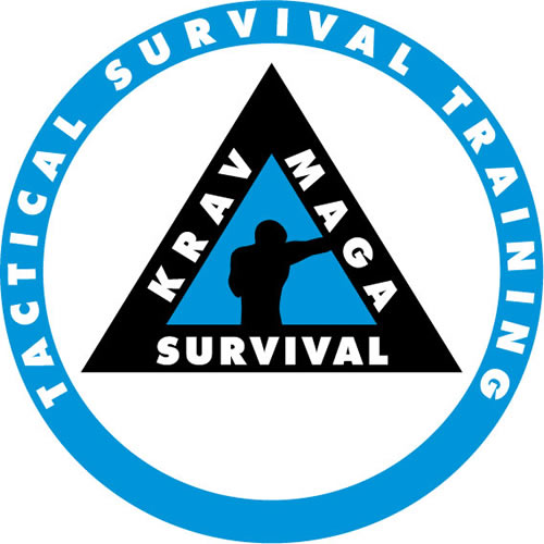 Krav Maga Survival logo